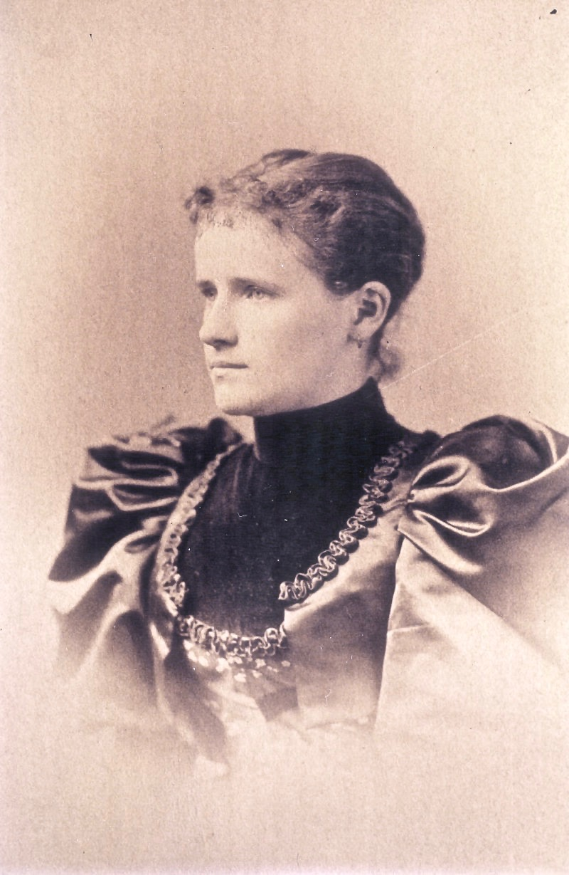 Annemarie Charlotte Abel (1871–1923), née Prufer, wife of Curt Abel-Musgrave (1860–1938). She was daughter of the German politician Richard Prufer (1836–1878) who served as mayor of Bochum and later as mayor of Dortmund.